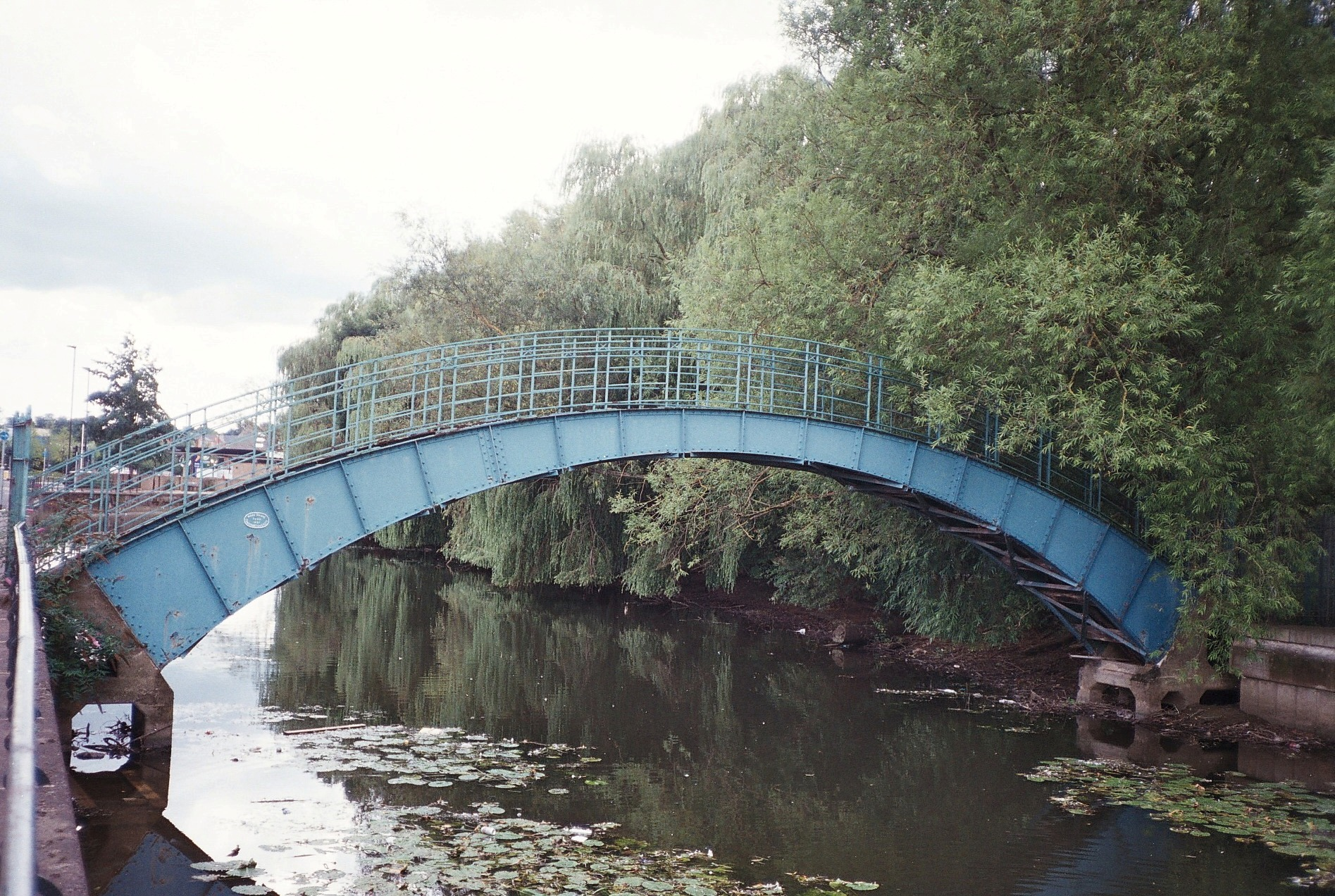 Metal bridge originally connecting power station on Foss Islands Road, York, with its cooling tower, currently locked and not in use.